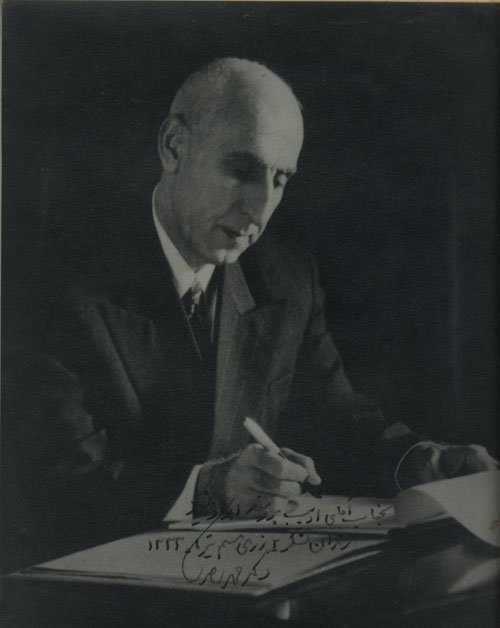 Mohammad Mossadegh - The text on the image: "Dedicated to Mr. Adib Boroumand. Prison of 2nd Armorial Division, Tir 20 1333 [July 11 1954]."